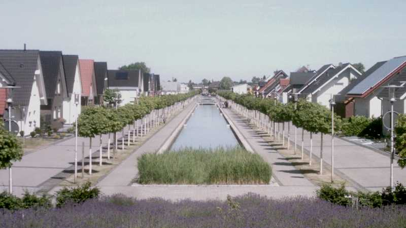 Hageau Promenade, Robend City Park, Viersen, Germany.